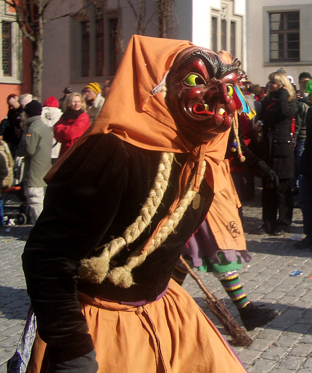 Ravensburg, Germany: carnival mask "Hexenliesel" of the Schwarze-Veri-Zunft